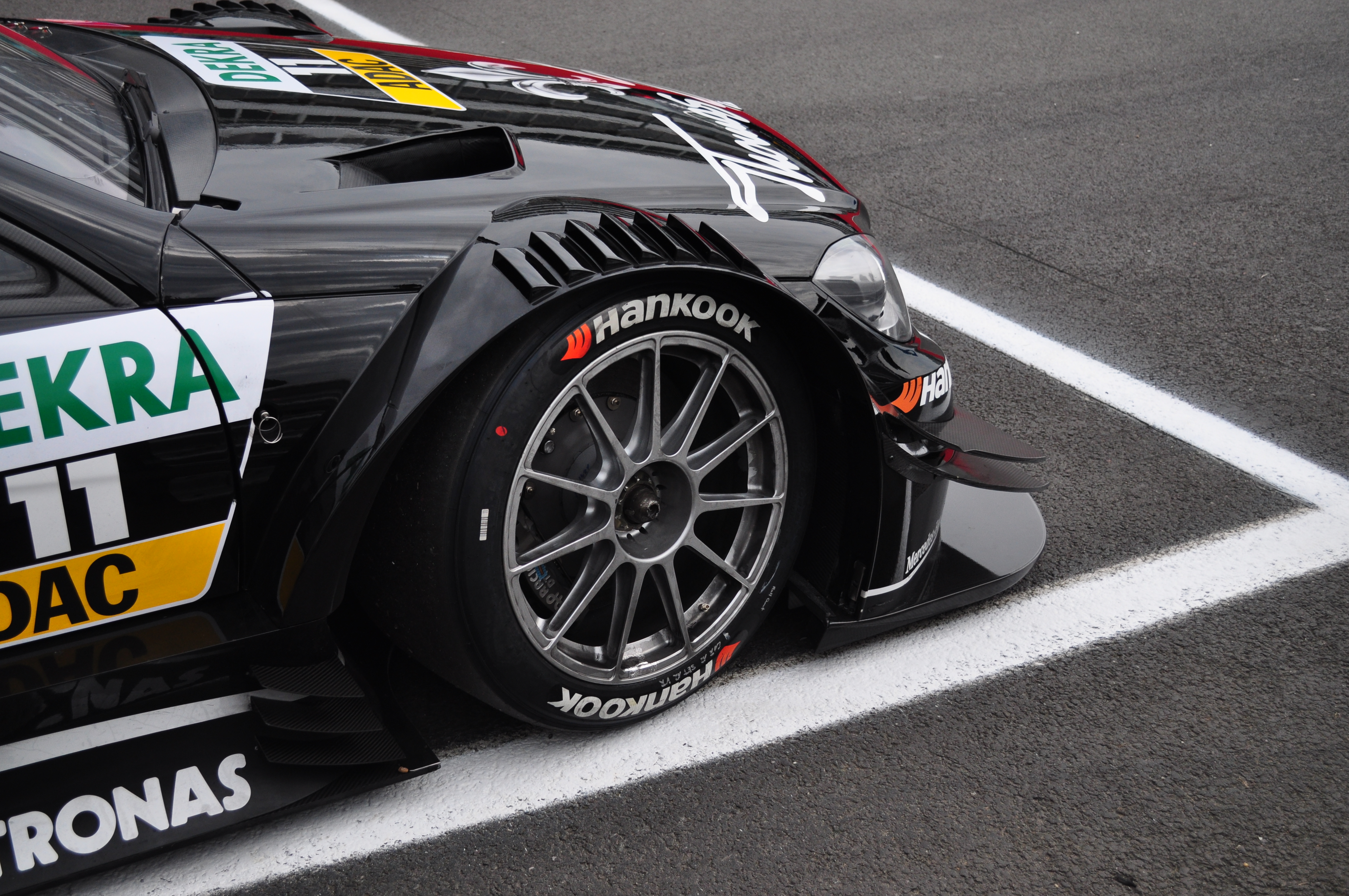 DTM Brands Hatch